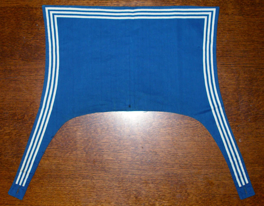 Uniform collar for a smart target and daily uniform of sailors, foremen and cadets of navy fleet of Russia